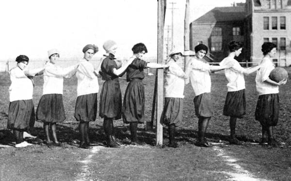 Trinity University (Texas) women's basketball team, 1915